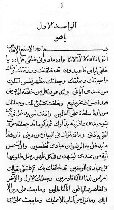 Facsimile: First page of arabic bayan by "Alimohammad Bab". He wrotes: "اني انا الله لا اله الا انا" : I, even I, am allah (GOD), there is no god except me.